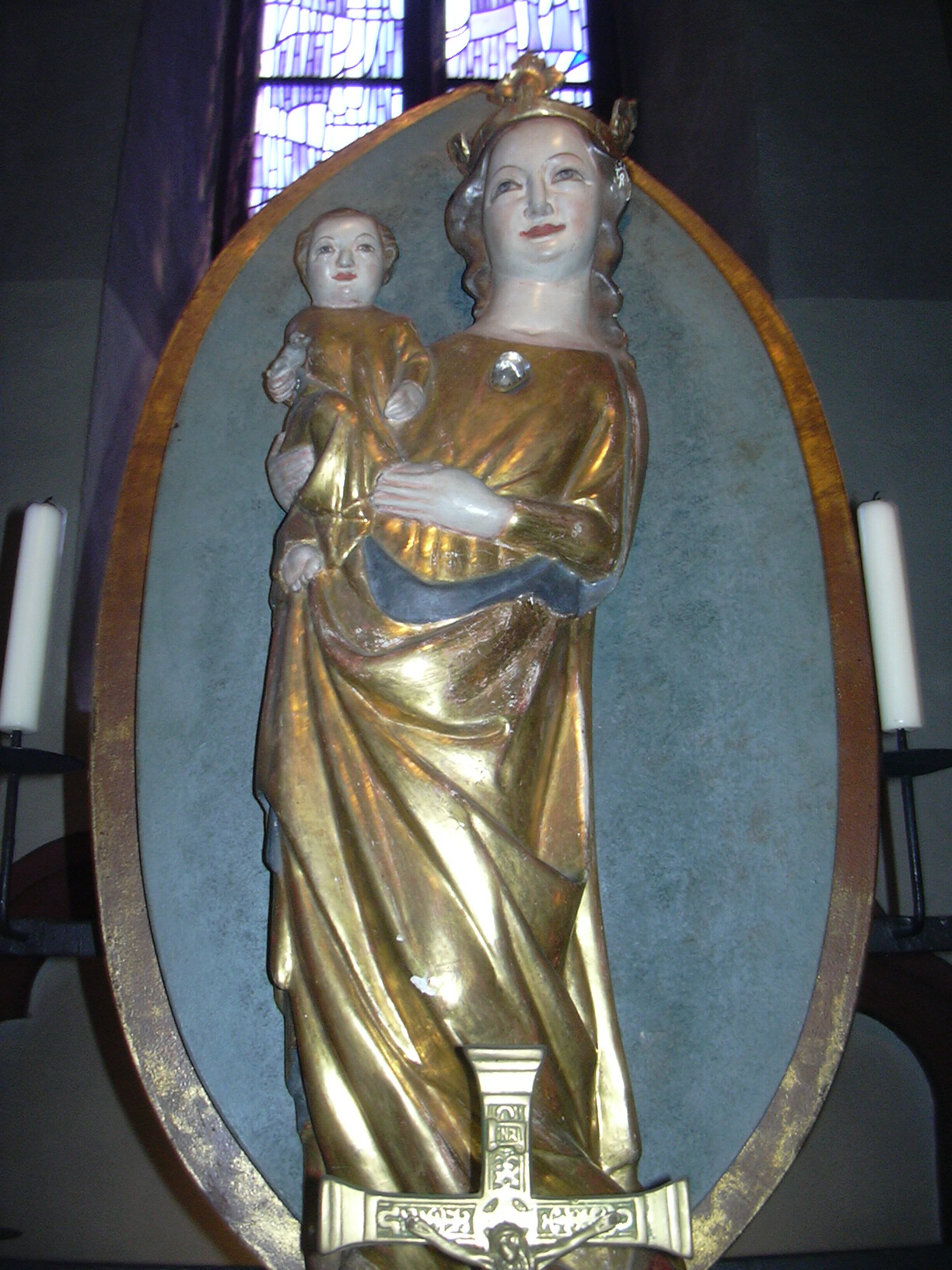 Pilgrim's Image: St. Mary in the Rough Wind, Alzenau/Kälberau, Bavaria/Germany